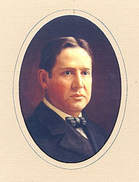 William Pettus Hobby, 27th Governor of the State of Texas.